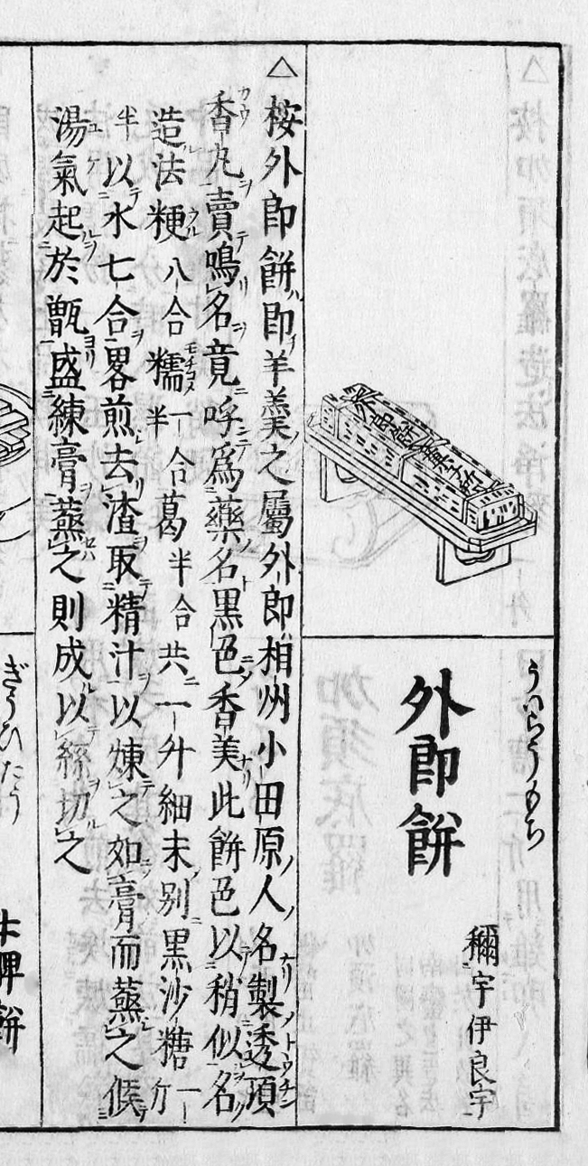 Japanese confect Uiro-mochi in the Encyclopedia Wakan Sansai Zue (1712)